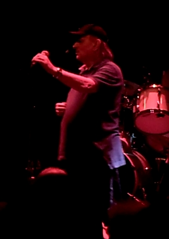 Harry Muskee (of Cuby + the Blizzards) at Hedon in Zwolle.